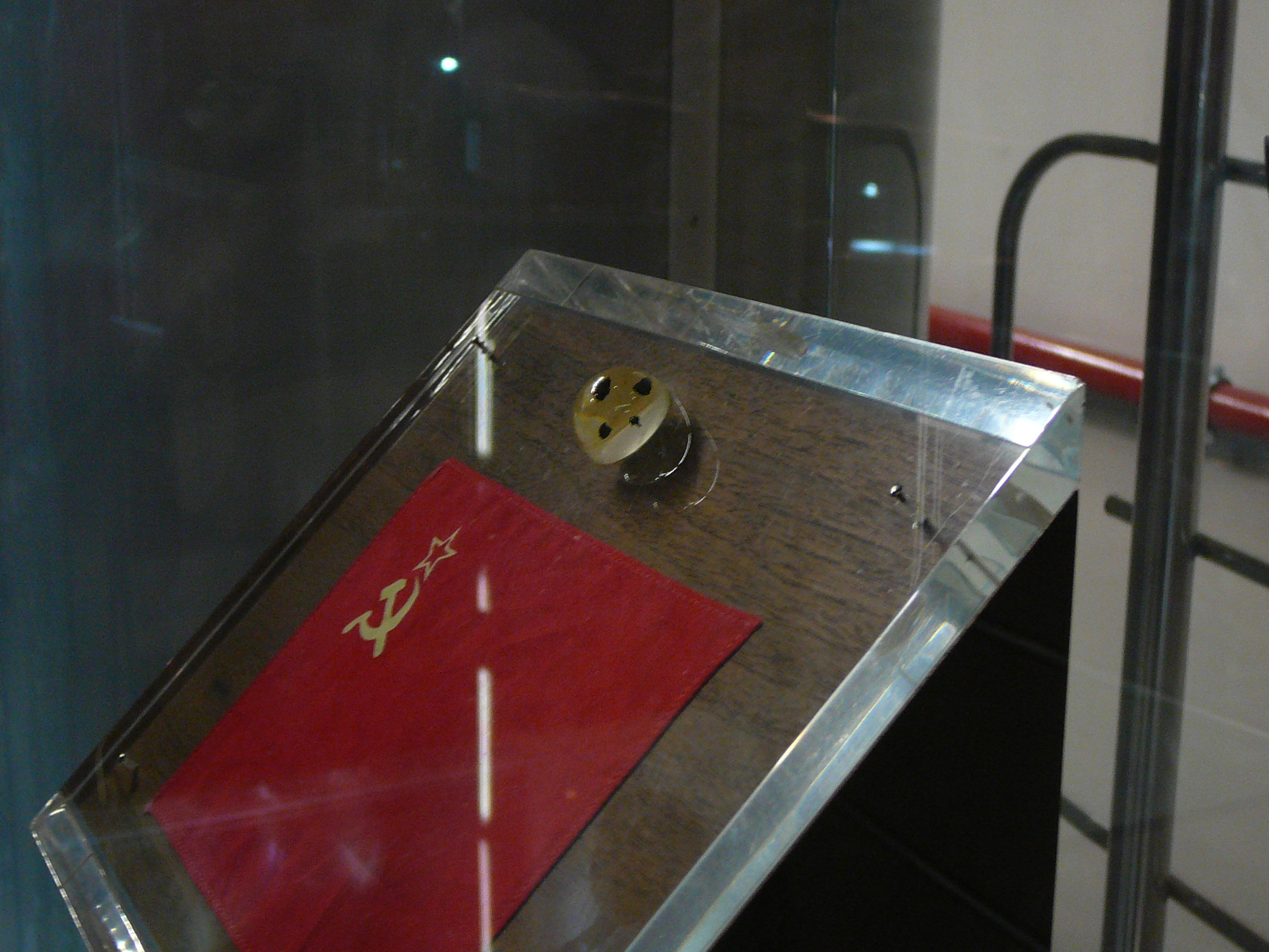 A piece of lunar soil, presented to the Soviet Union by Americans, it's exhibited in the Memorial Museum of Astronautics in Moscow. Delivered to Earth from the moon by the Apollo 11 crew. Flag of the Soviet Union, which had been on the Moon with the Americans.